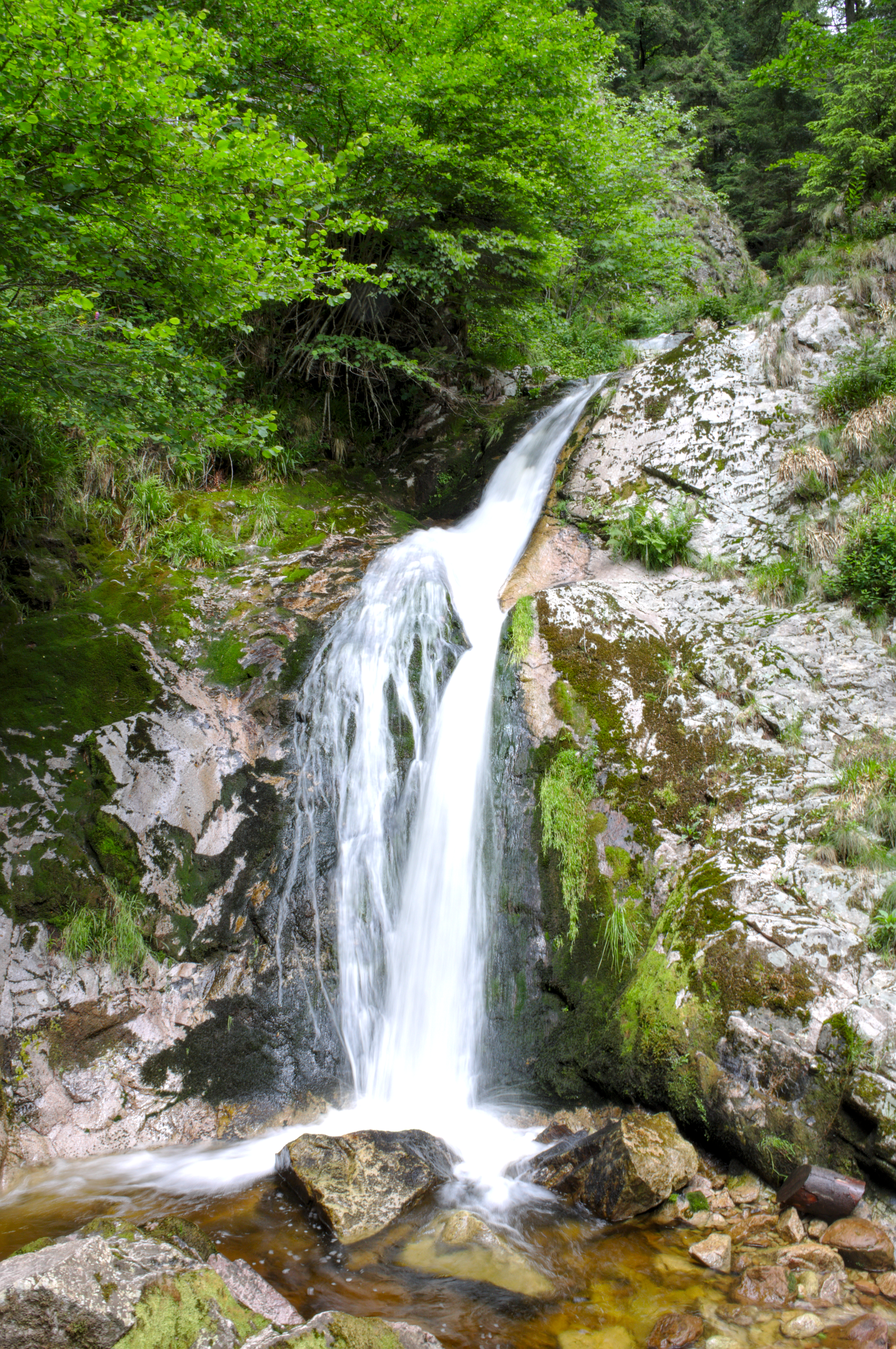 Allerheiligen-Wasserfaelle